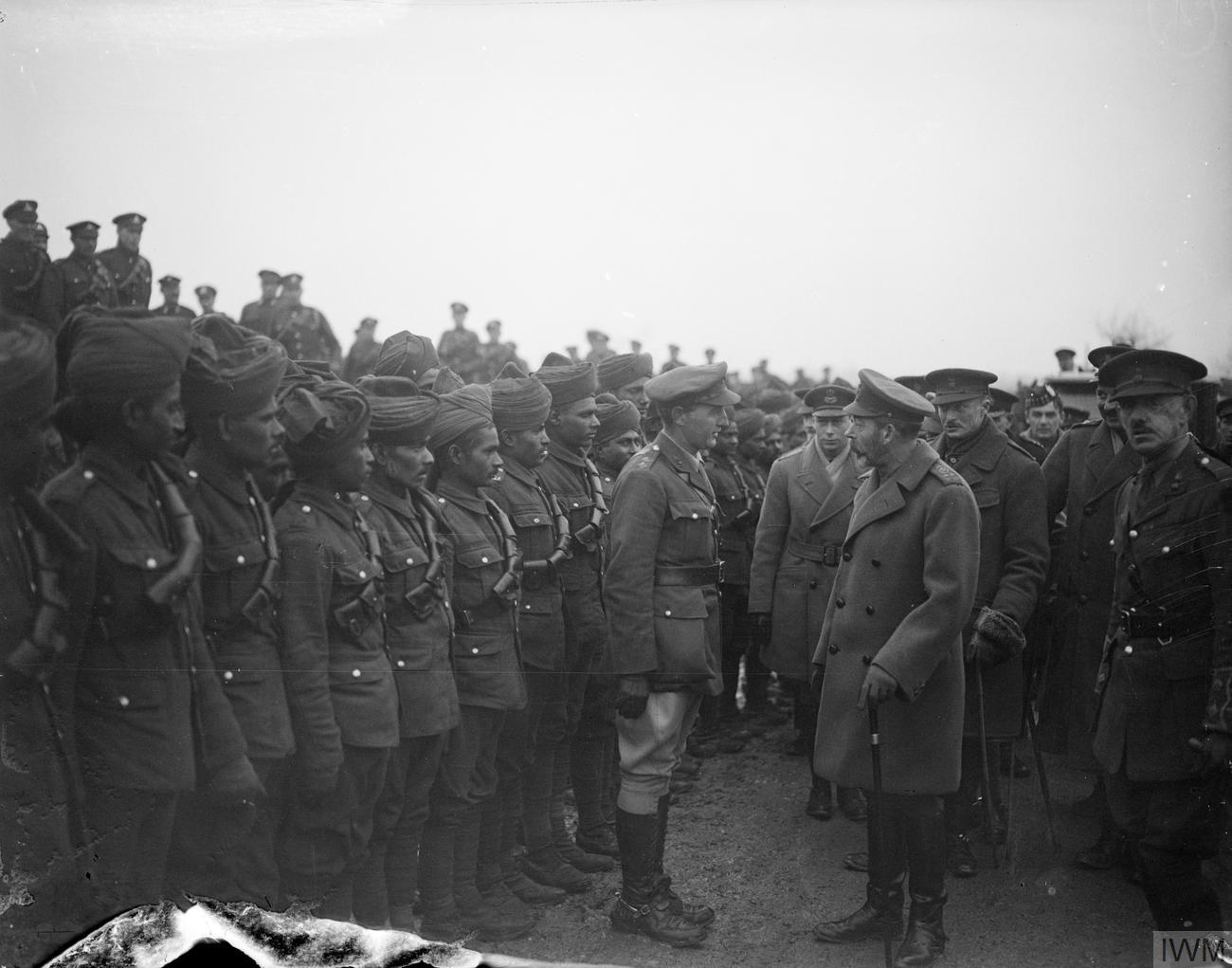 The British Army on the Western Front, 1914-1918 King George V inspecting Indian troops attached to the Royal Garrison Artillery, at Le Cateau on 2 December 1918.